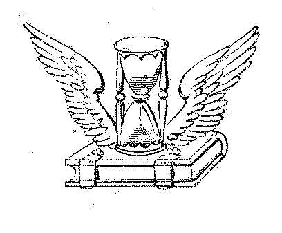 Book header/footer